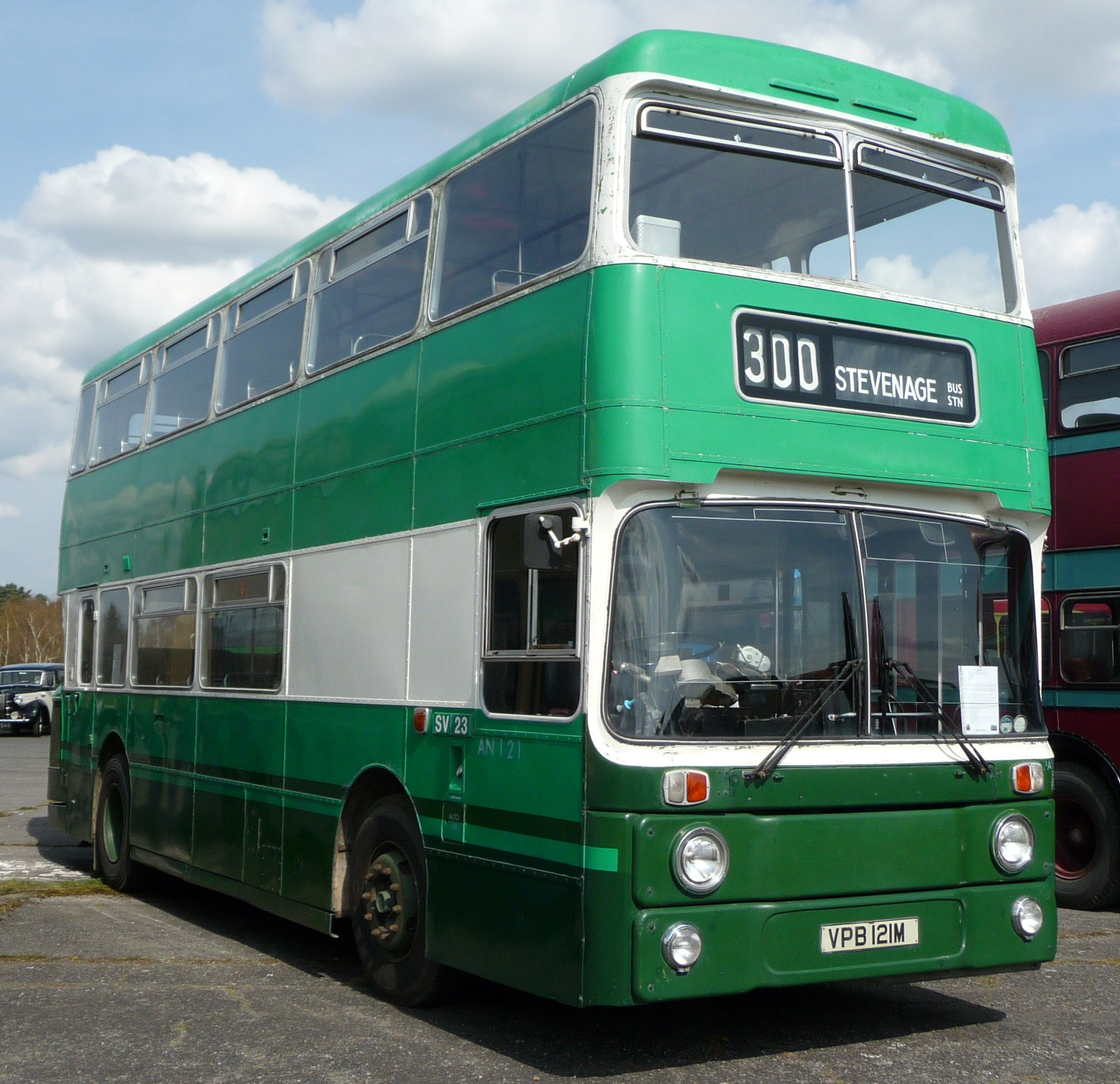 Preserved London Country North East AN121 (VPB 121M), a Leyland Atlantean/Park Royal, at the 2009 Cobham bus rally at Wisley Airfield. London Country North East was created from the split of London Country Bus Services.